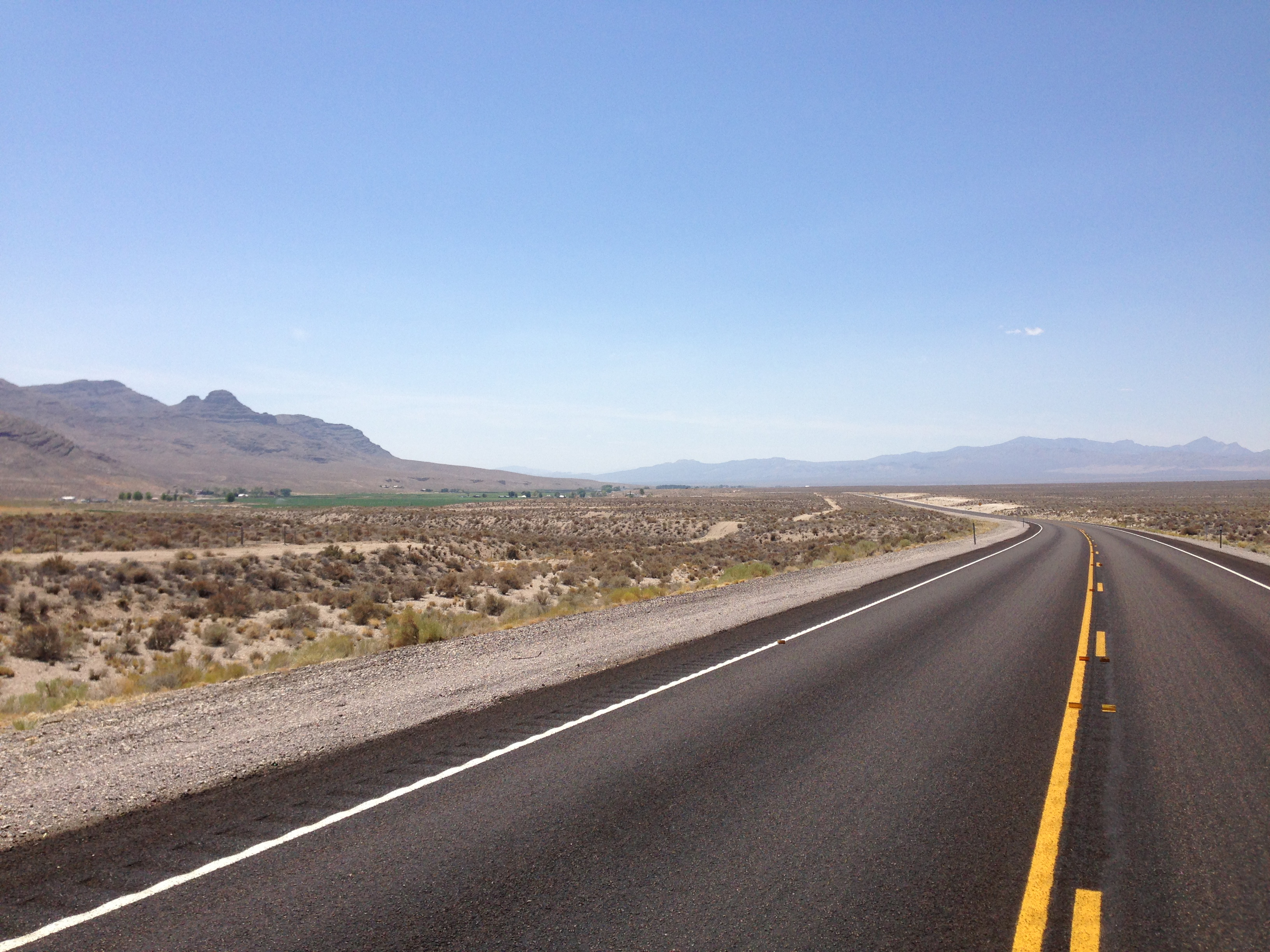 View south towards Hiko, Nevada from Nevada State Route 318 about 6.9 miles north of U.S. Route 93